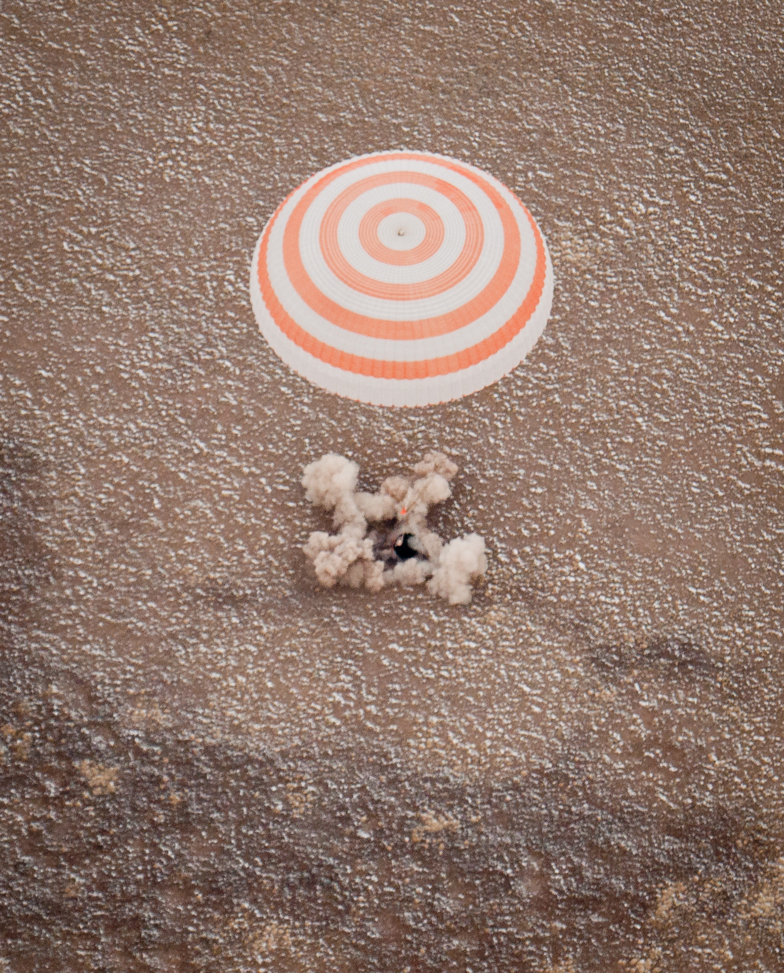 Soyuz TMA-19 crew members Fyodor Yurchikhin, Shannon Walker, and Douglas H. Wheelock land safely in their Soyuz capsule on Friday, November 26, 2010.